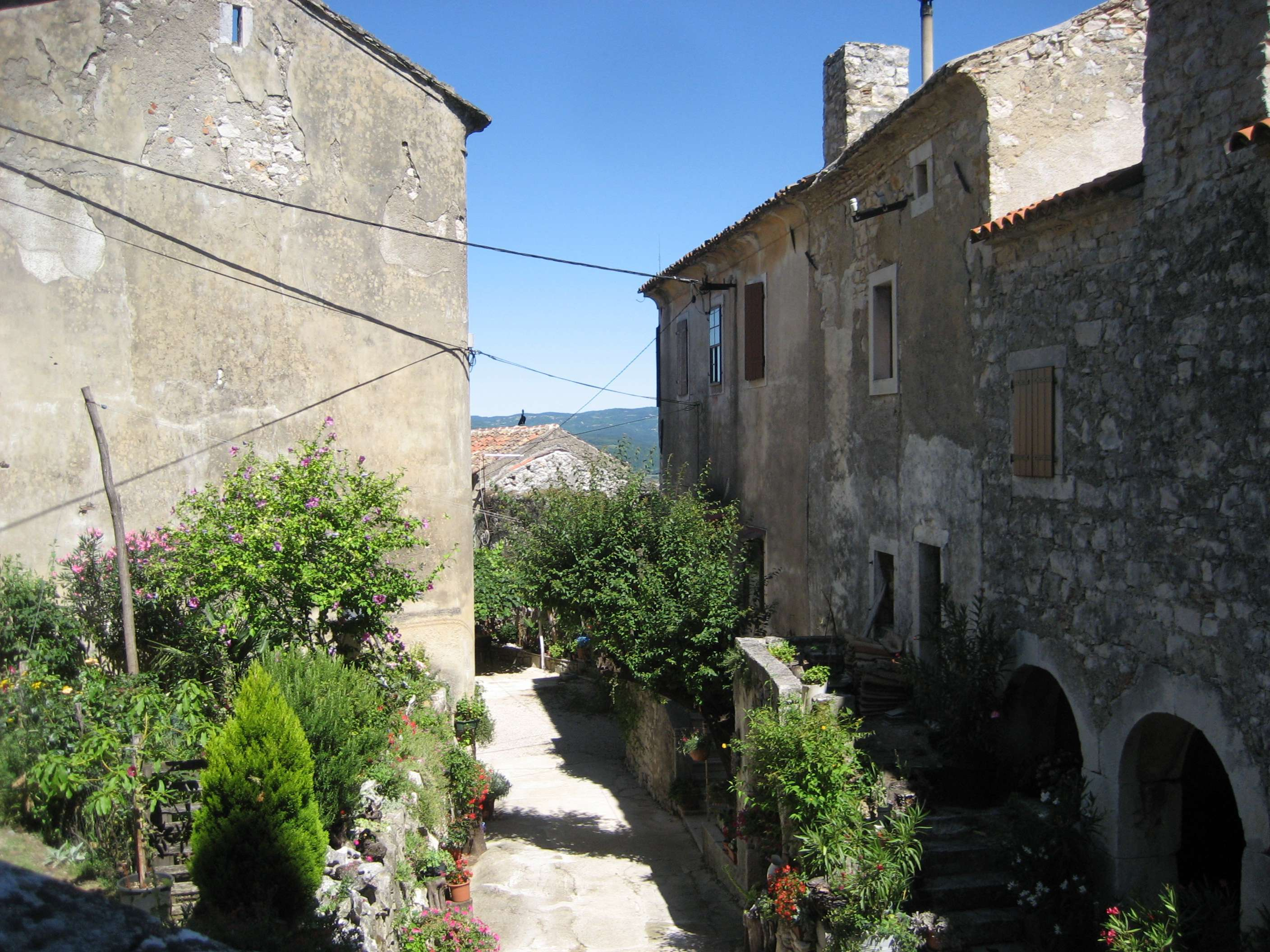 Castle Krsan, Croatia